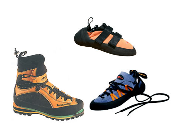 Climbing shoes in comparision with a mountaineering boot